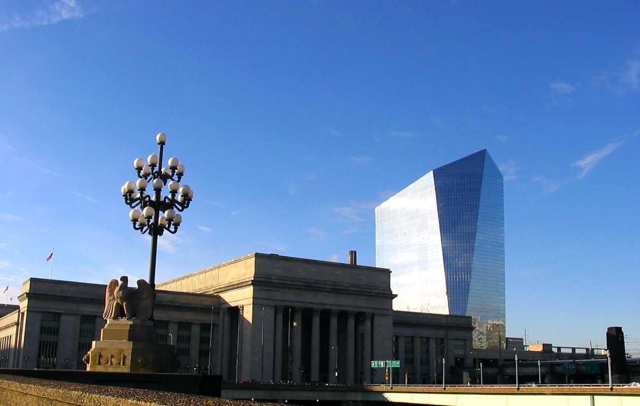 Philadelphia's 30th Street Station and the Cira Centre behind as seen from the Market Street bridge. Philadelphia, Pennsylvania.